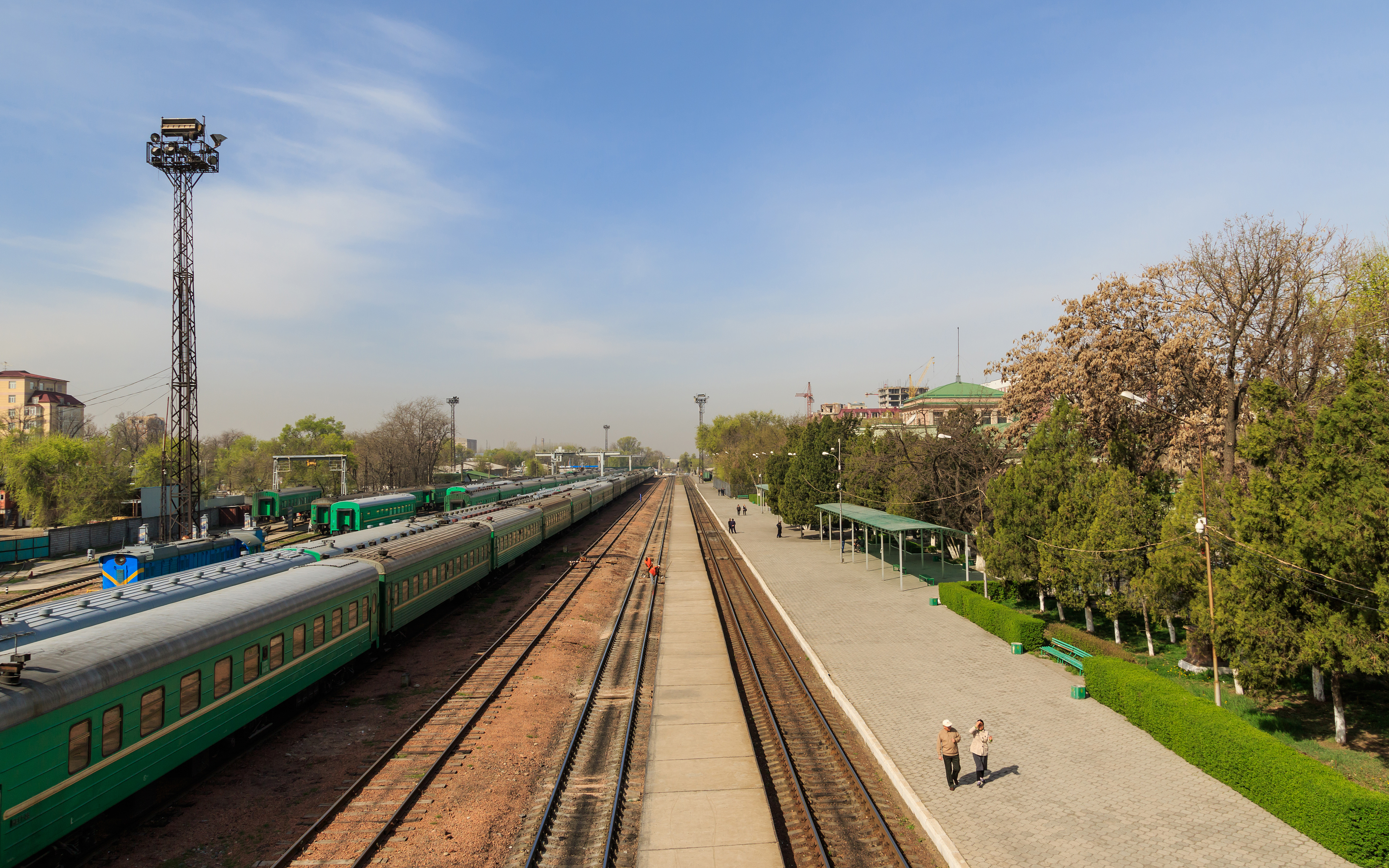 Bishkek-2 railway station in Bishkek, Kyrgyzstan